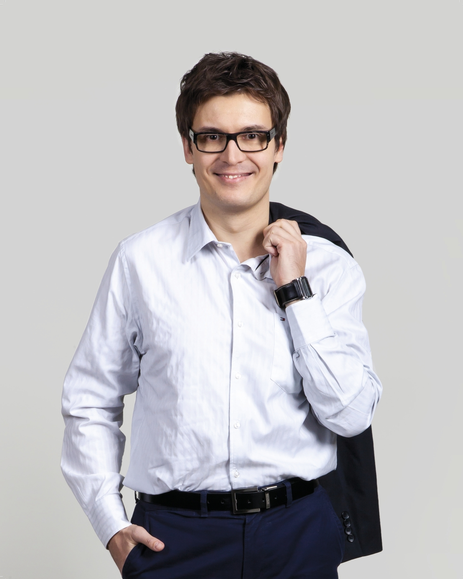 Dariusz Jemielniak (born March 17, 1975 Warsaw) is a (full) professor of management, a co-founder of NeRDS (New Research on Digital Societies) group, and the head of the Center for Research on Organizations and Workplaces (CROW) at Kozminski University. His interests evolve around critical management studies, open collaboration projects (such as Wikipedia or F/LOSS), narrativity, storytelling, knowledge-intensive organizations, virtual communities, organizational archetypes, all studied by interpretive and qualitative methods